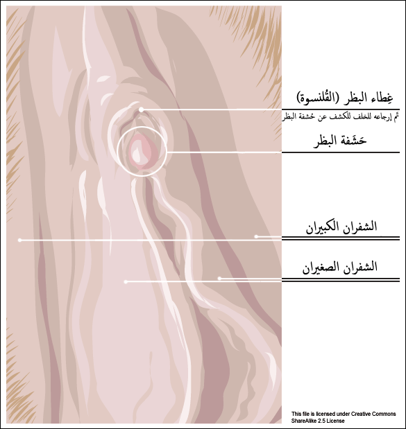 A picture showing the outer anatomy of the vulva, focusing on the anatomy and location of the clitoris.